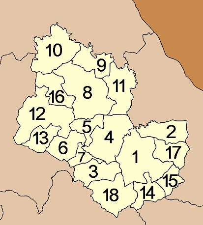 Map of Sakon Nakhon with the districts numbered. Mueang Sakon Nakhon Kusuman Kut Bak Phanna Nikhom Phang Khon Waritchaphum Nikhom Nam Un Wanon Niwat Kham Ta Kla Ban Muang Akat Amnuai Sawang Daen Din Song Dao Tao Ngoi Khok Si Suphan Charoen Sin Phon Na Kaeo Phu Phan